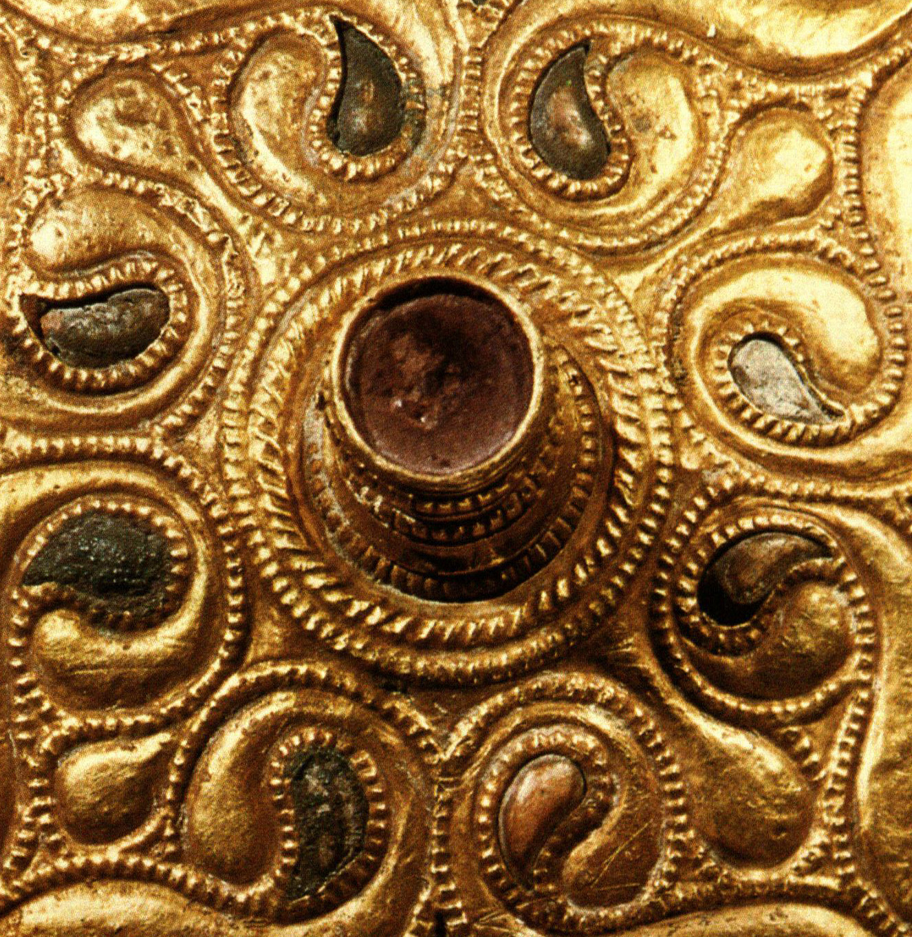 Celtic yin yang swirls arranged around the knob of a gold-plated bronze disc from Auvers-sur-Oise, Val-d'Oise, dated to early 4th century BC; on display at the Cabinet des Médailles of the Bibliothèque Nationale in Paris